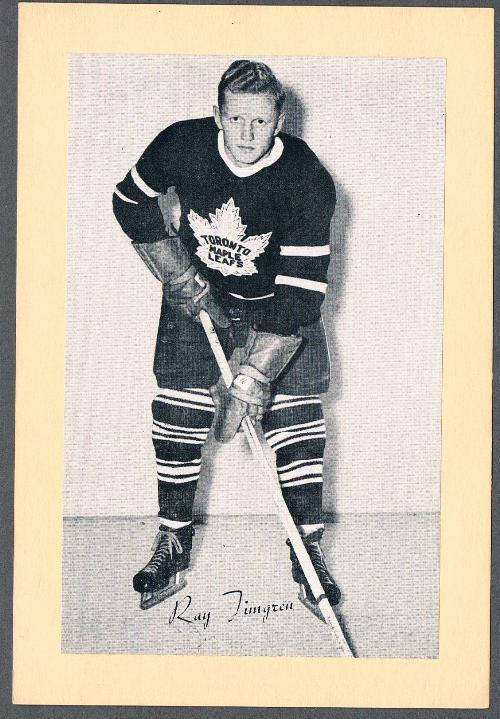 Ray Timgren